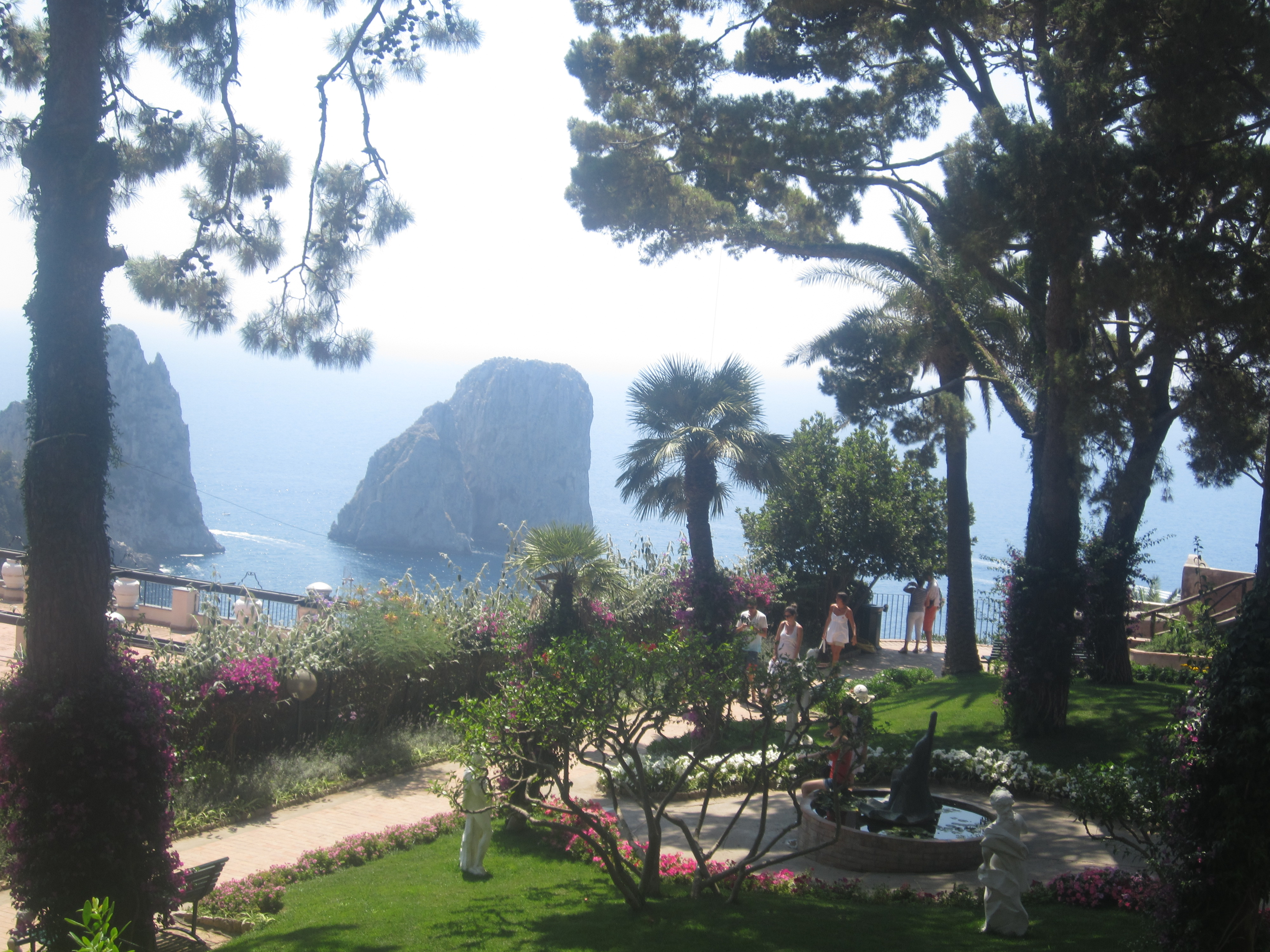 Gardens of Augustus, Isle of Capri